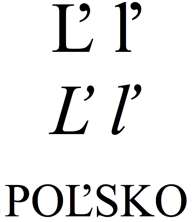 latin small and capital letter l with caron, and small capitals ‘Poľsko’